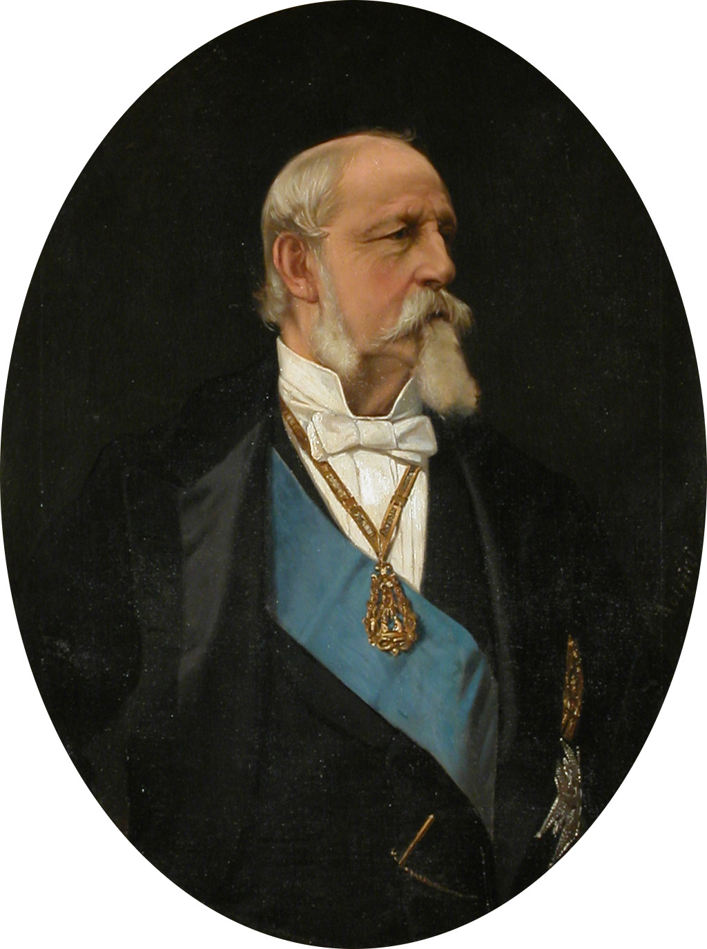 Portrait of Charles II, Duke of Parma (1799-1883)